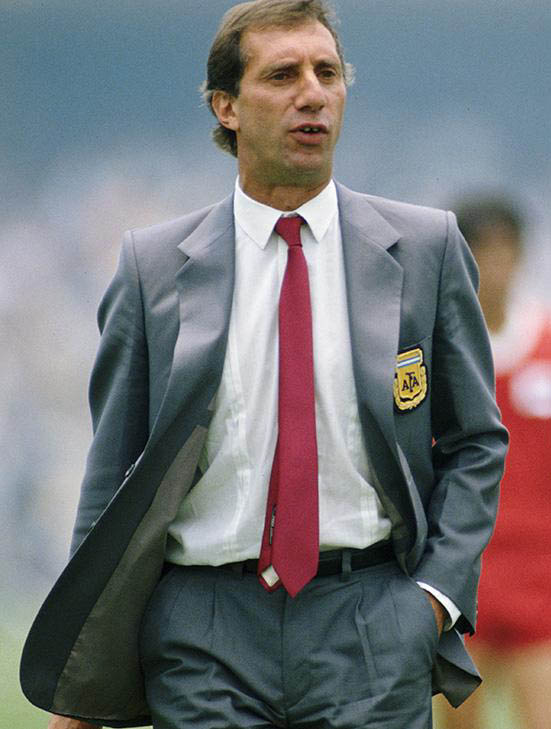 Former Argentina national football team manager Carlos Bilardo, during the 1986 World Cup.